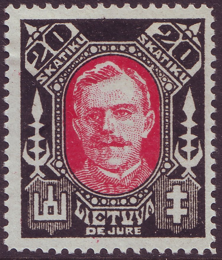 Stamp of Lithuania, issued 1922-09-27, with a portrait of Povilas Lukšys (1886-1919). Designed by Adomas Varnas. Michel 126